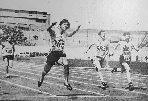 Kinue Hitomi